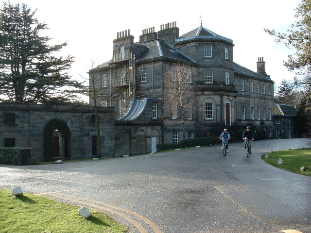 Ravelston House This house, (of grand design) is now part of The Mary Erskine School, (a bunch of concrete blocks).